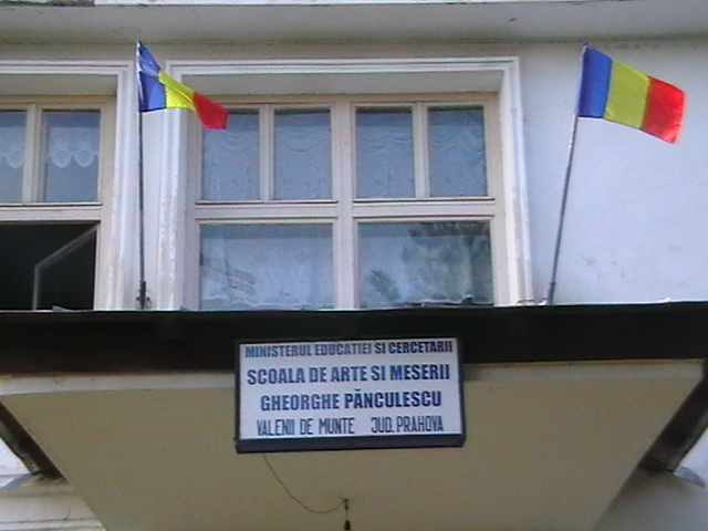 Gheorghe Panculescu School of Arts and Crafts